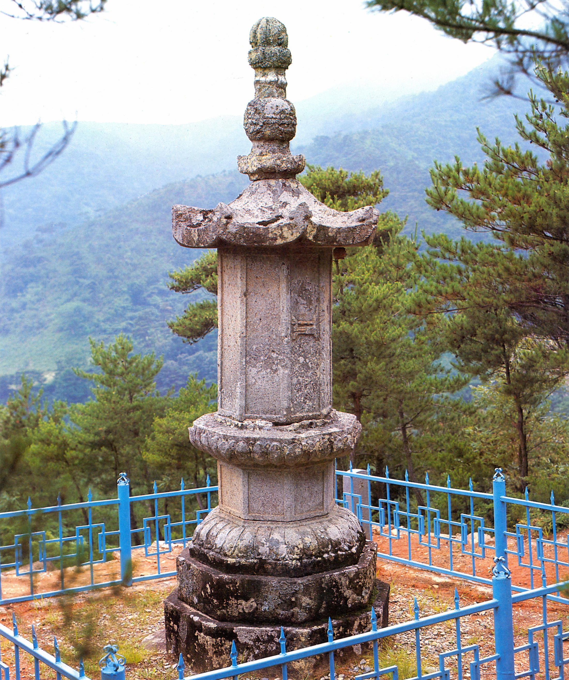 Stupa for unknown buddhist monastic at Bogyeongsa temple in Pohang, Korea